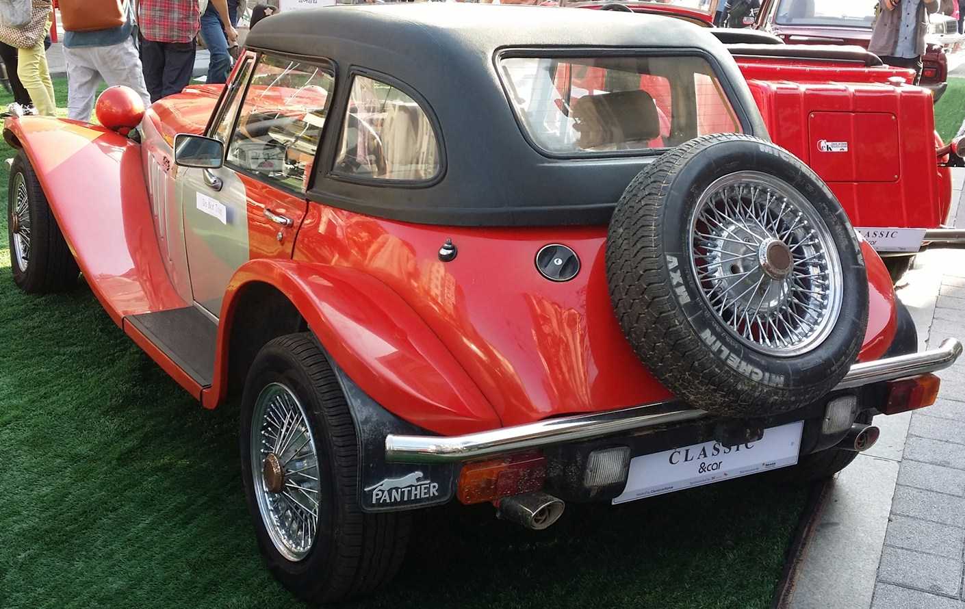 Ssangyong Kallista